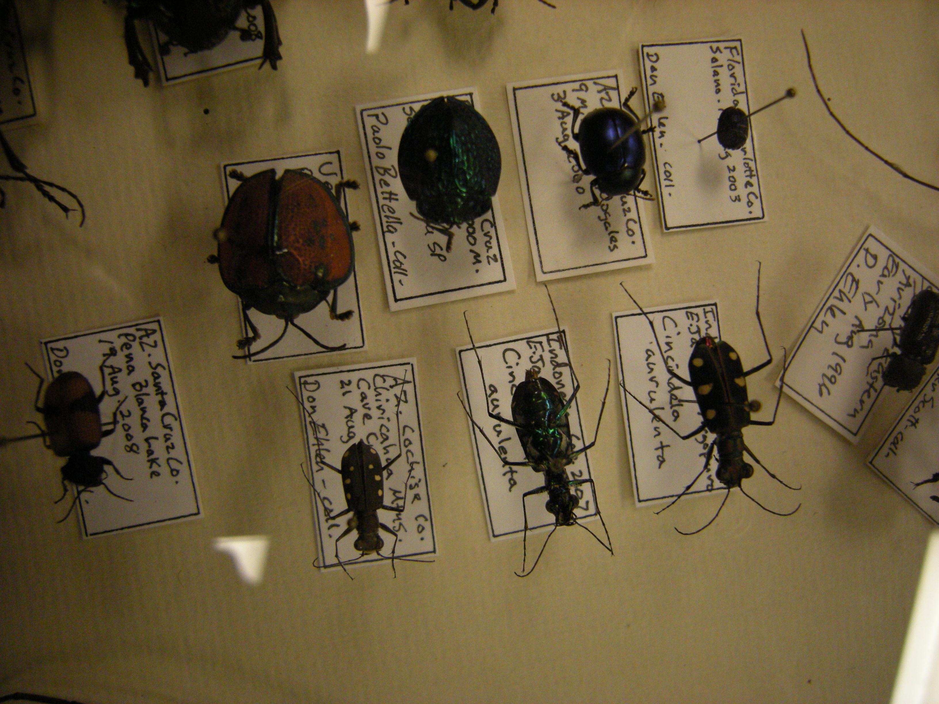 Unidentified beetles Cicindelidae and Chrysomelidae (two Hispinae). Part of Don Ehlen's "Insect Safari" collection. If you know more about the individual species here, please feel free to flesh out this description.